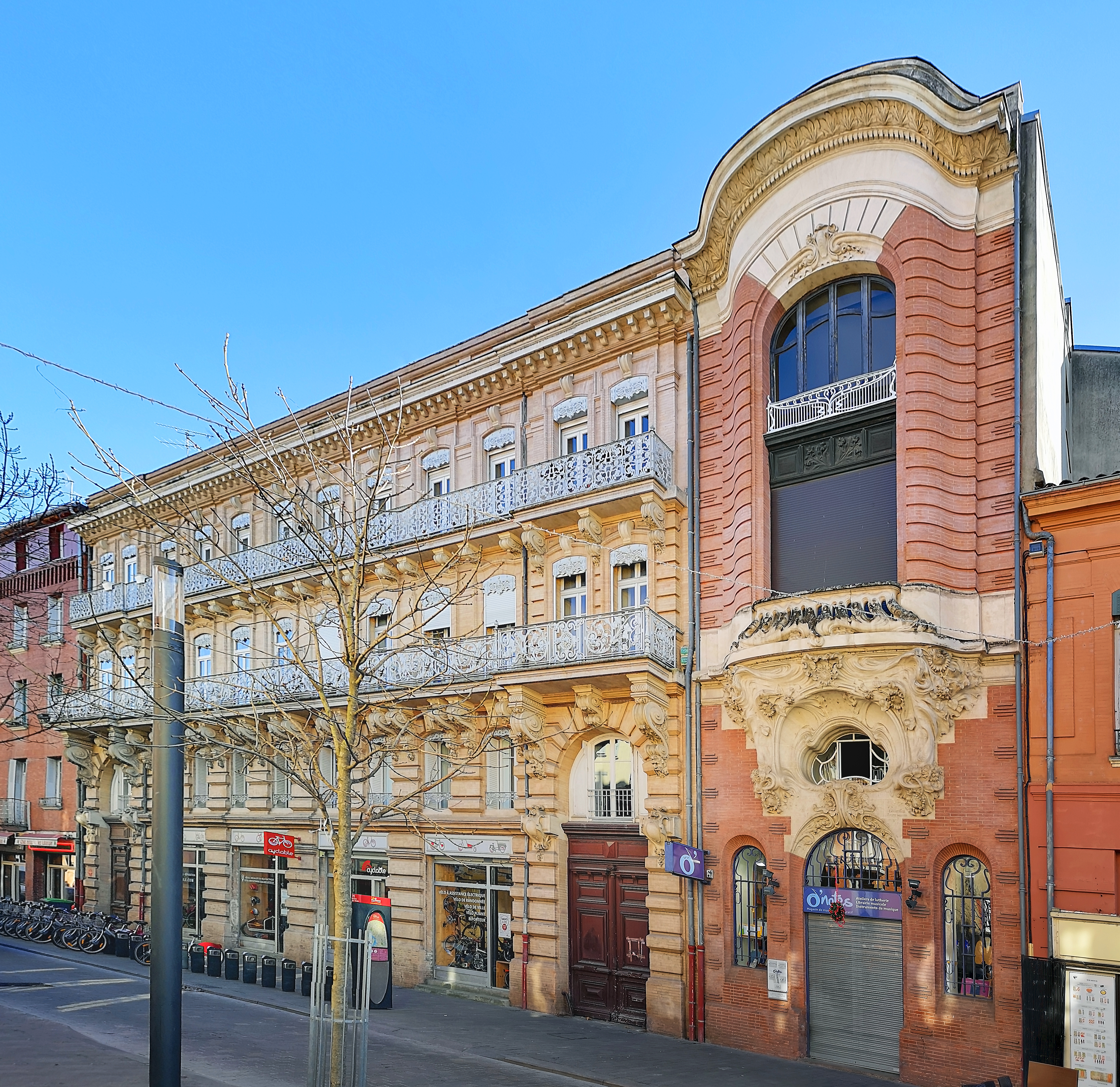 Rue Jean-Suau (Toulouse);No 4 building 1900 style